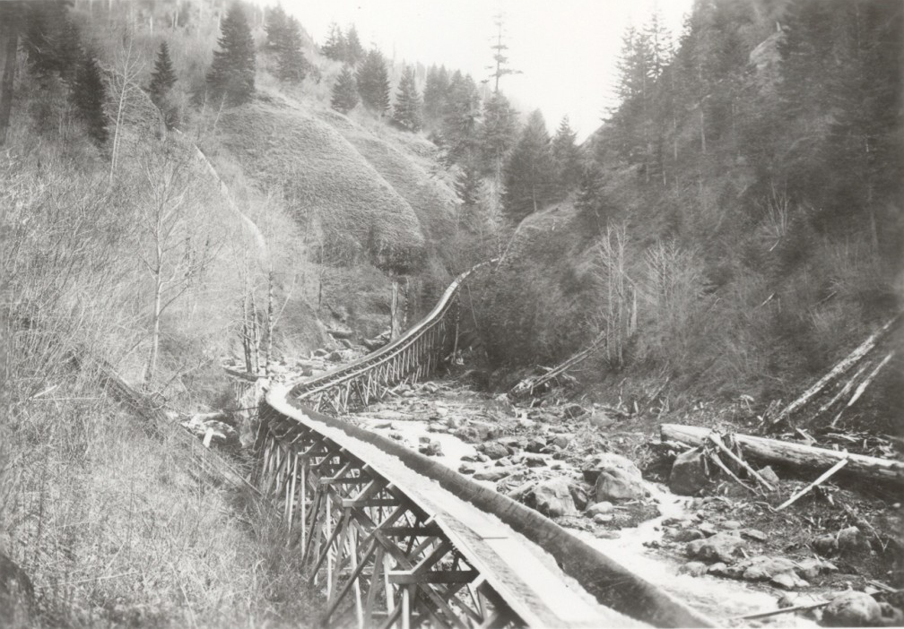 The log flume coming from the mill in Palmer toward Bridal Veil, c. 1896